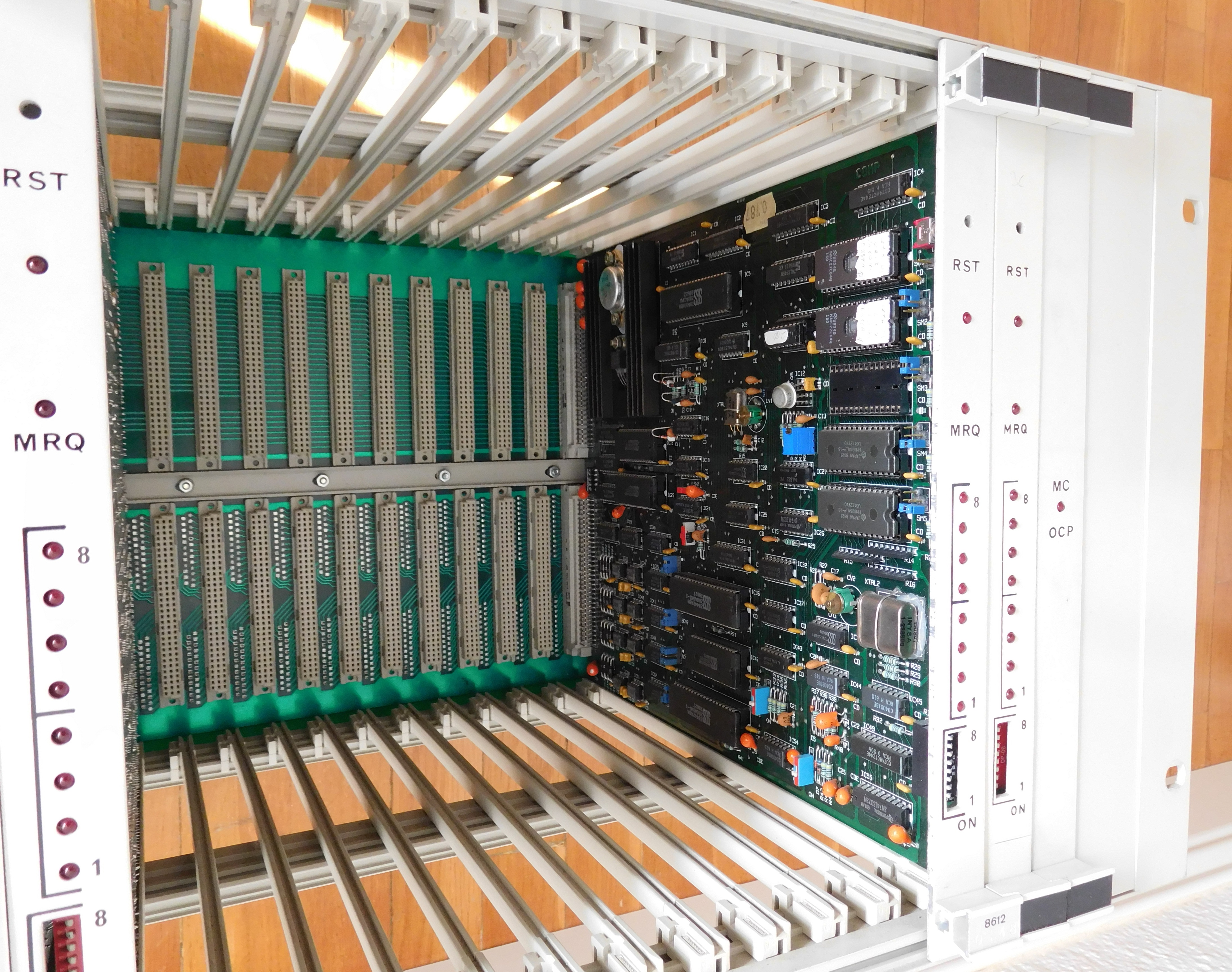 Image of a TRAME I Router using Z80 chip